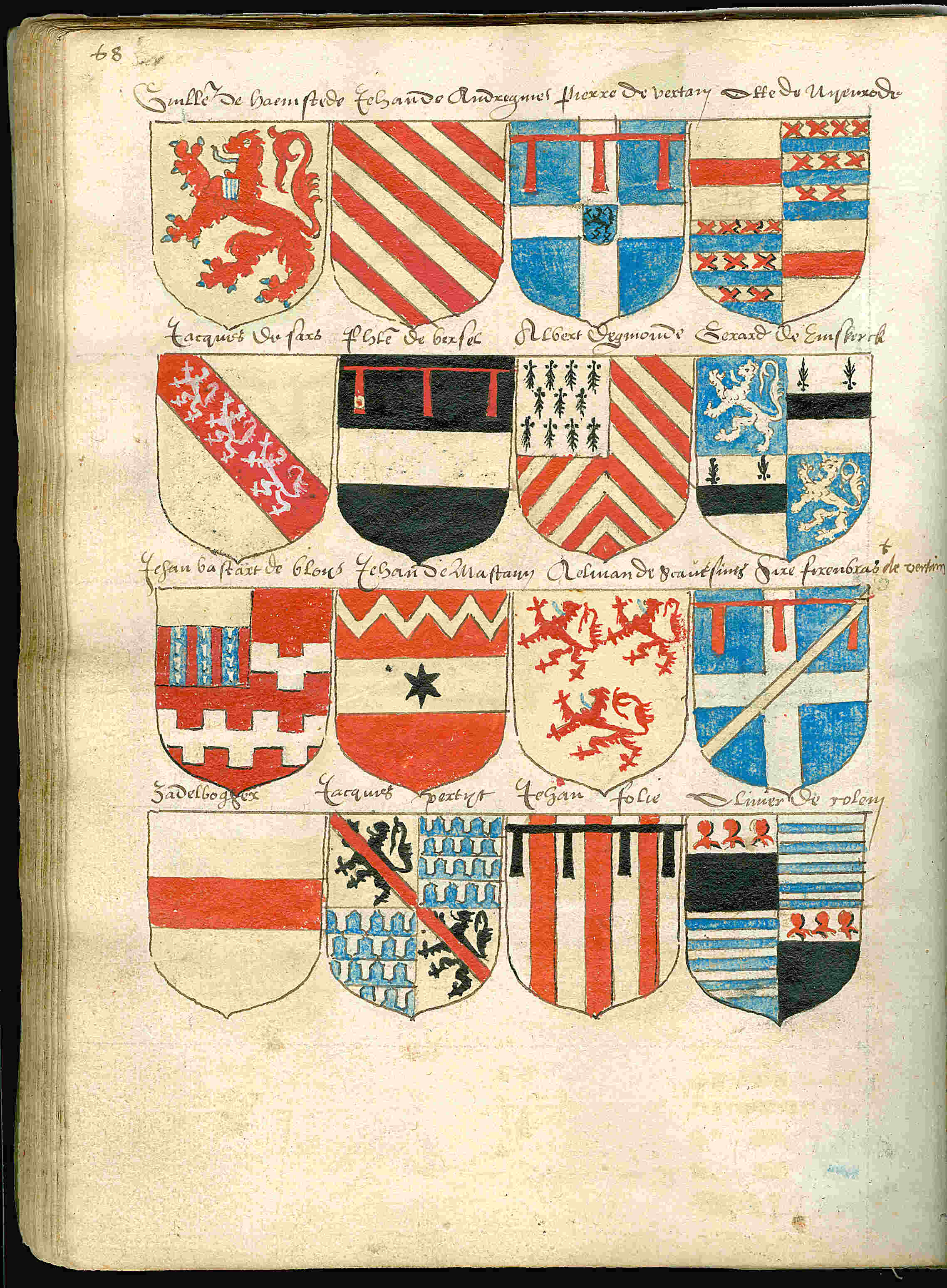 Page 68 from a copy of the Beyeren armorial / Wapenboek Beyeren from ca. 1600. The original Beyeren armorial from 1405 can be viewed at the website of the KB